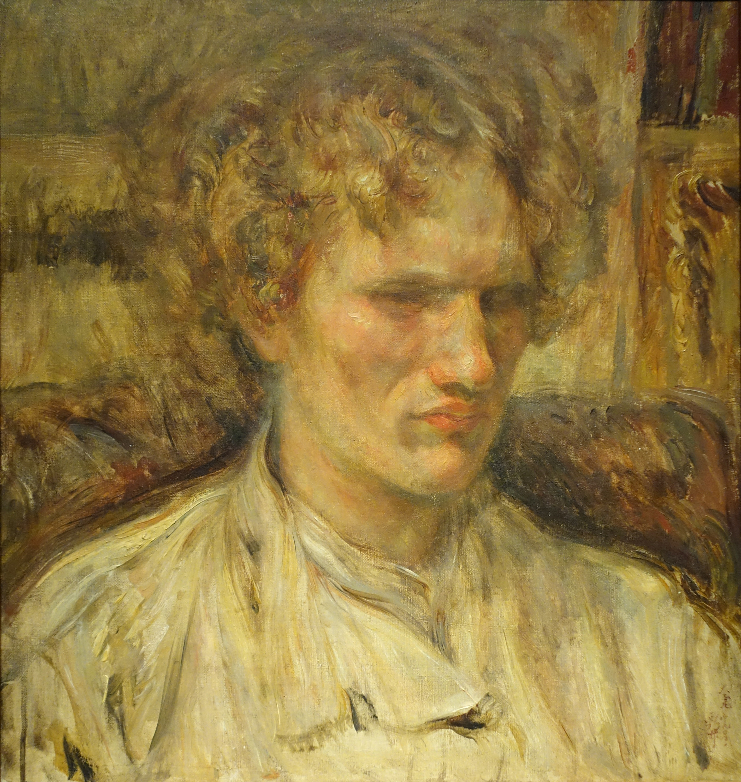 Exhibit in the National Museum of Modern Art, Tokyo (東京国立近代美術館). This artwork is in the public domain because the artist died more than 70 years ago.